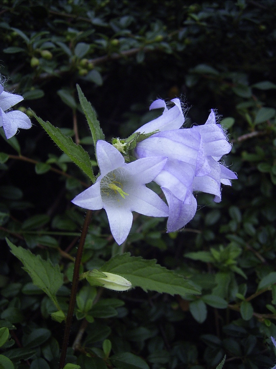 Campanula trachelium Source: Denis Barthel